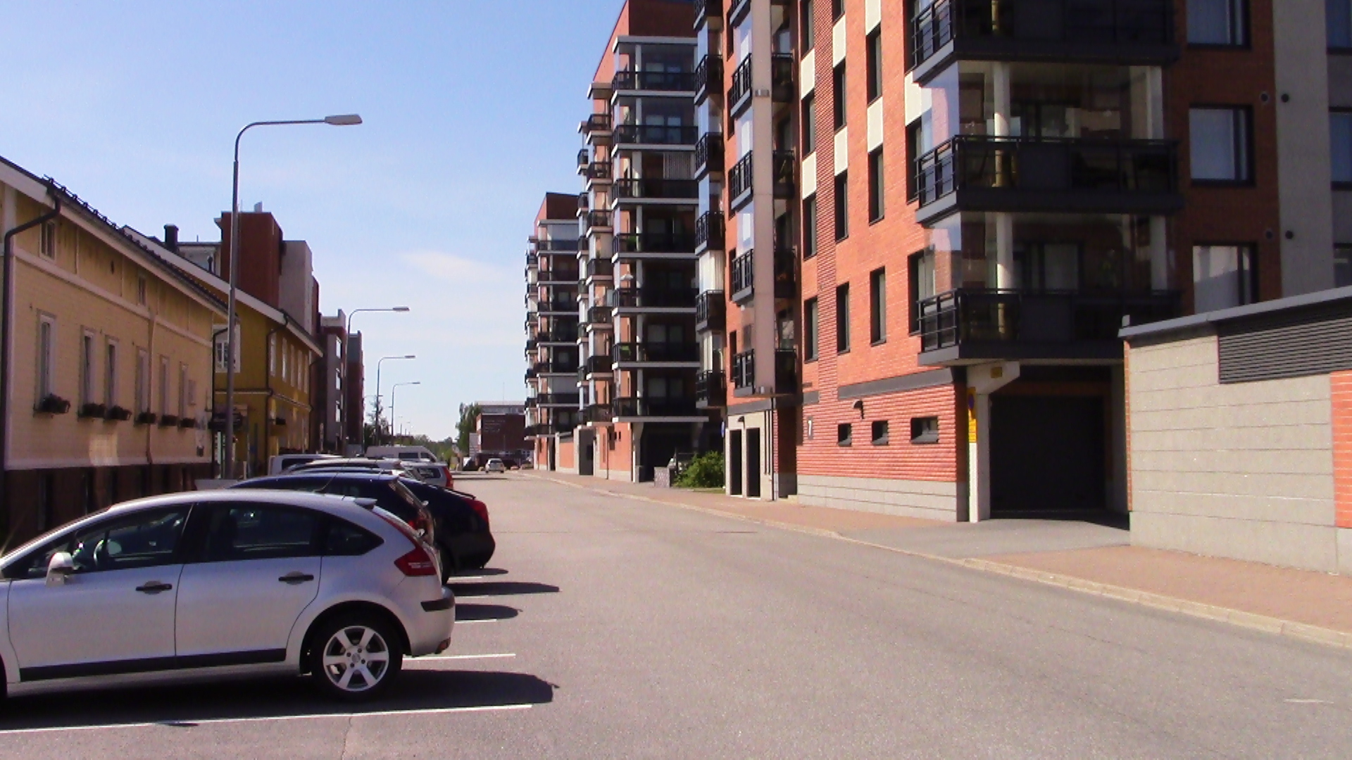 Street of Karjapiha at Karjaranta suburb in Pori, Finland.